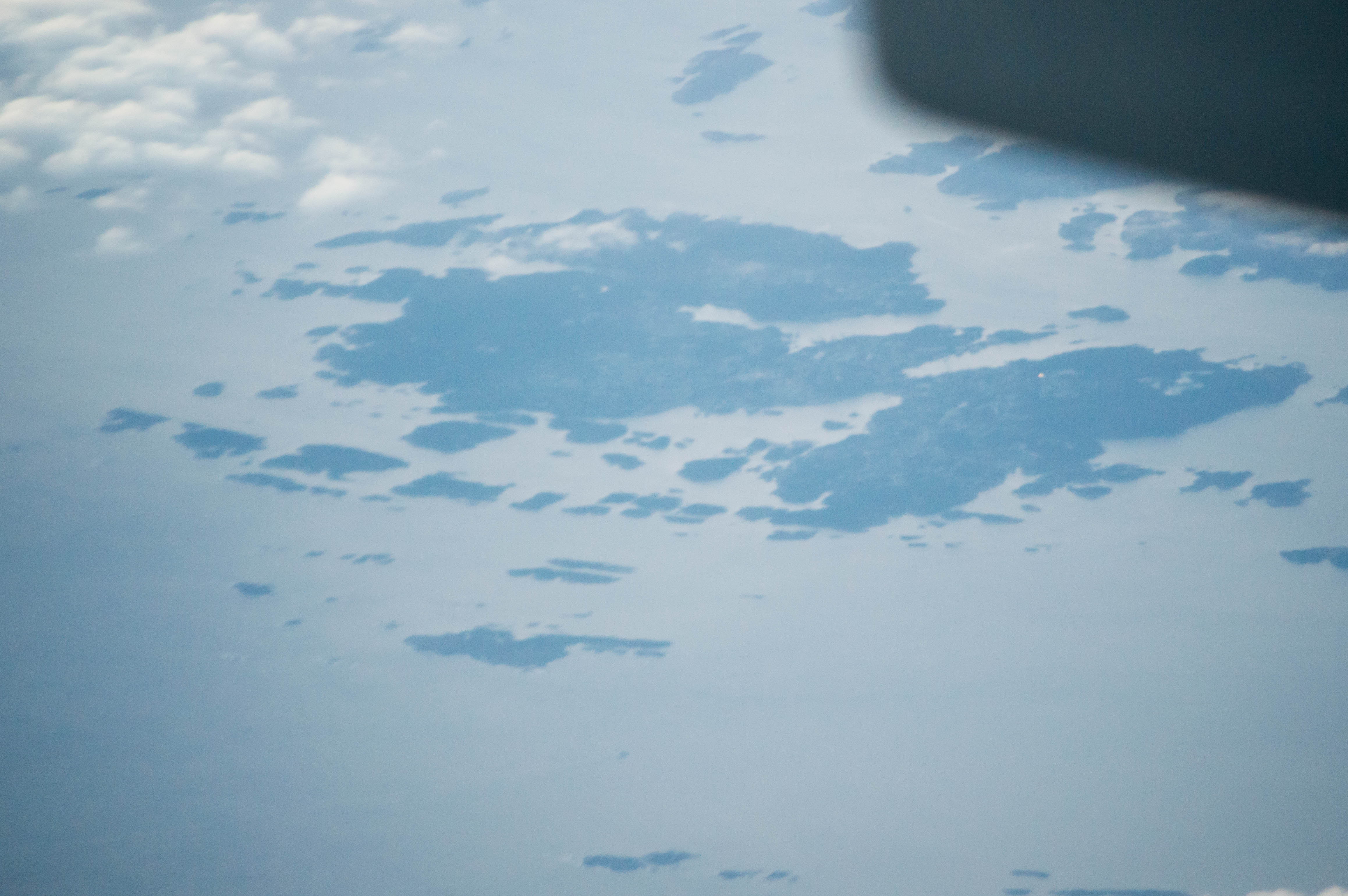 Flekkerøya seen from an airplane.